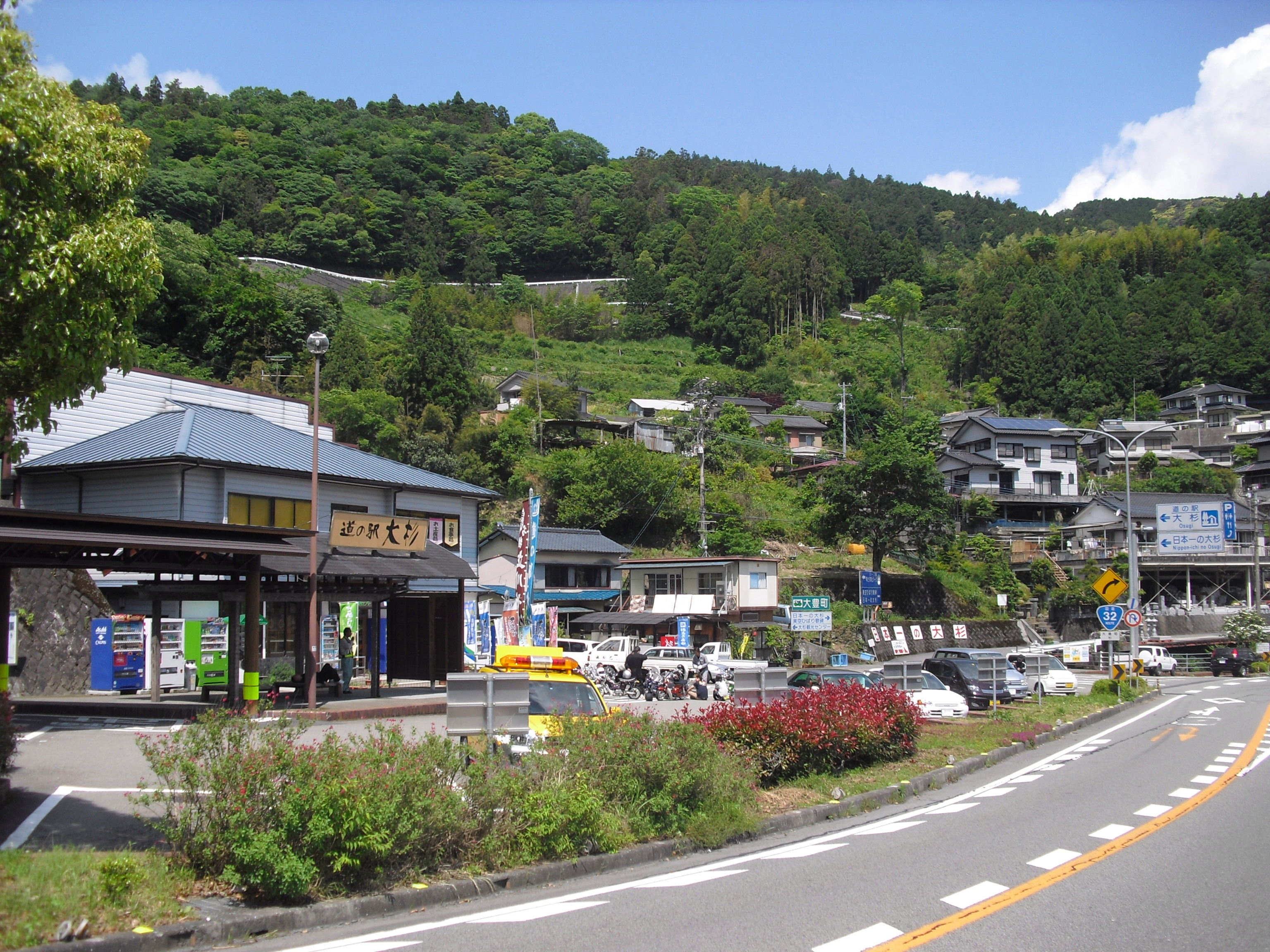 Roadside Station Osugi